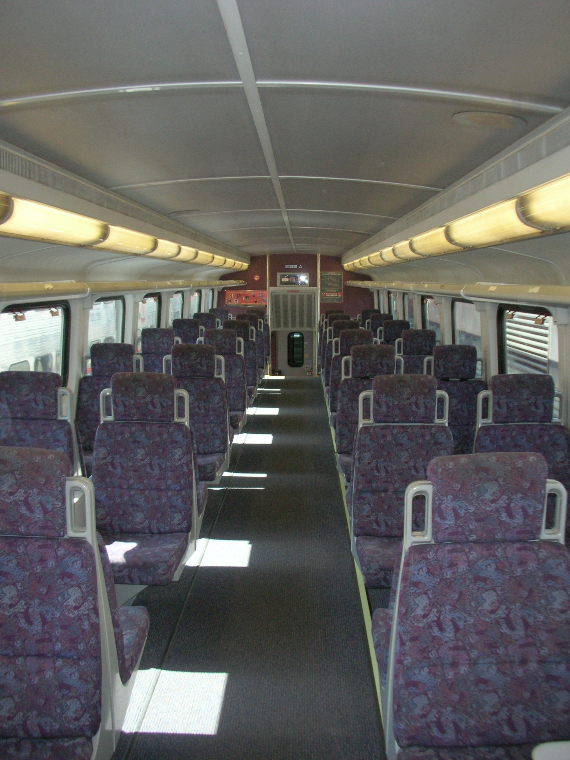 4th and King Caltrain Station, San Francisco. Interior of a Caltrain Bombardier BiLevel Coach.